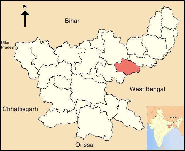 A locator map of Dhanbad district, Jharkhand state, India